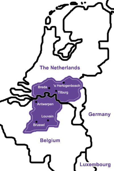 Map of the Duchy of Brabant